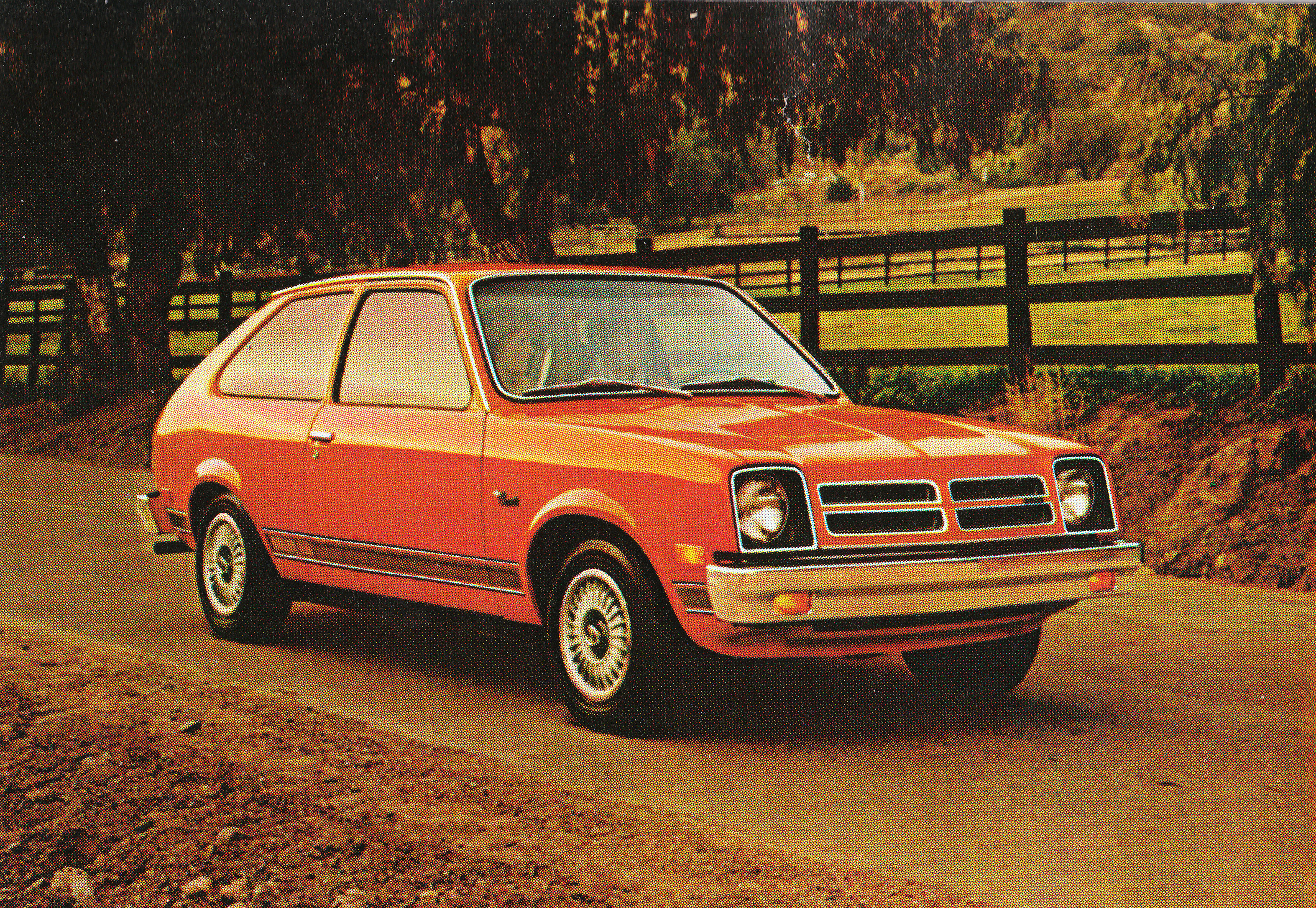 1977 Chevette Rally